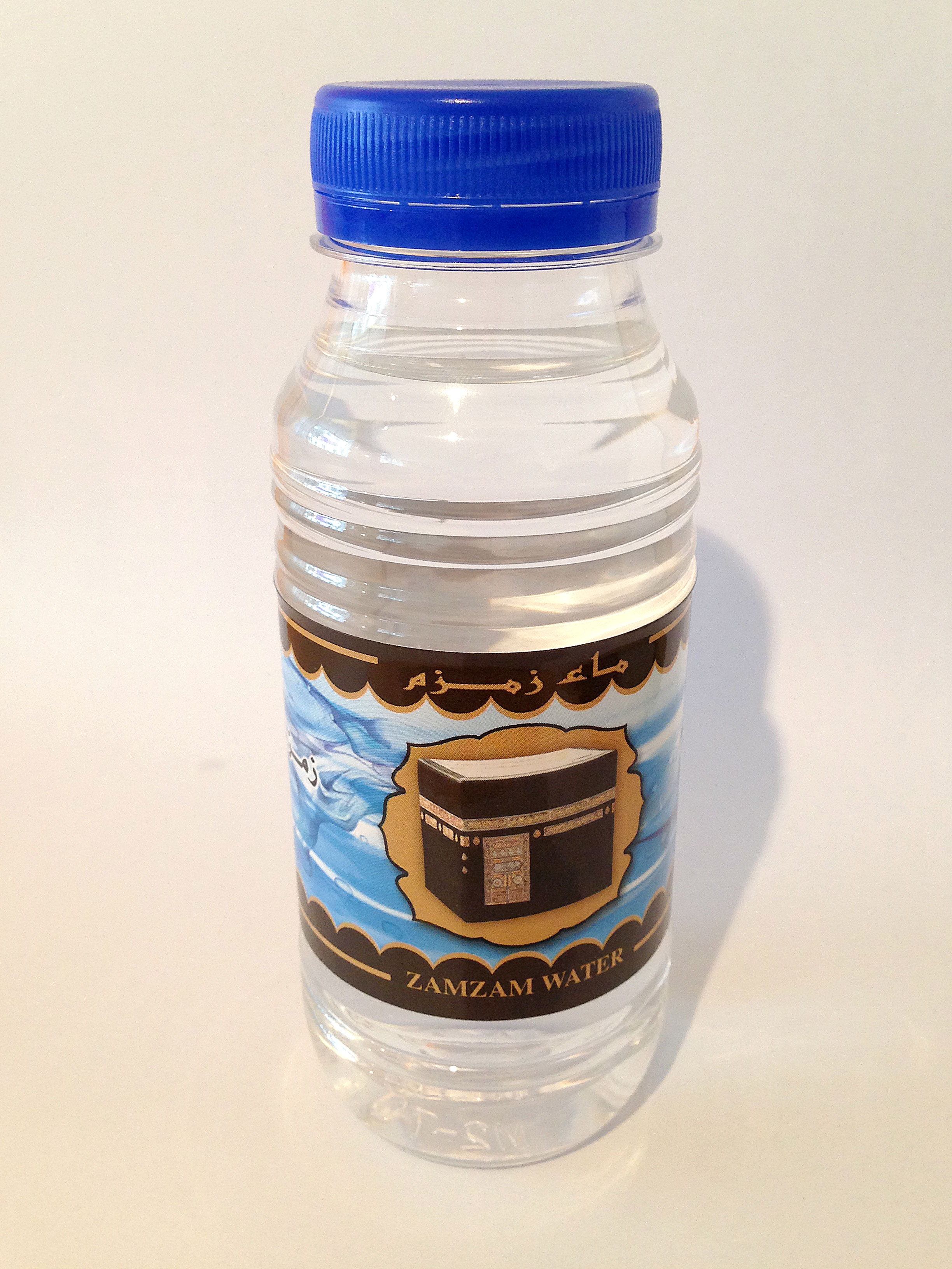 A PET-bottle of Zamzam-water